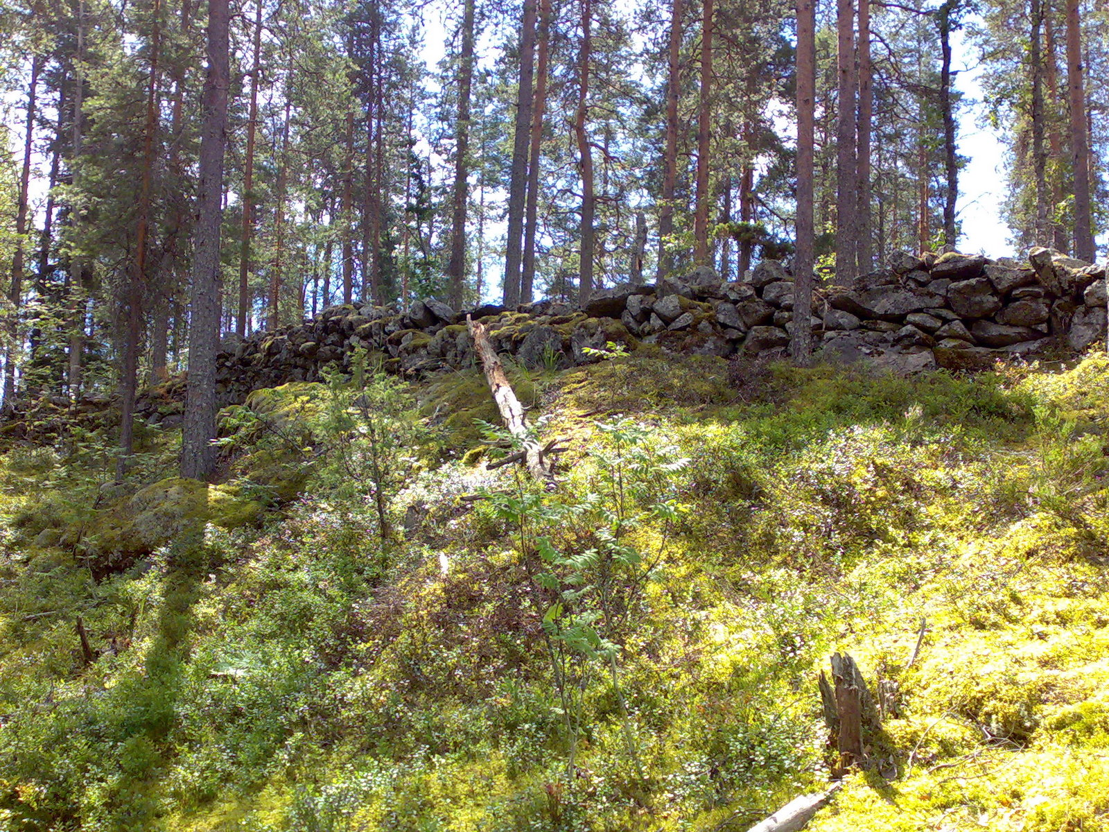 Ancient fortification at Linnavuori